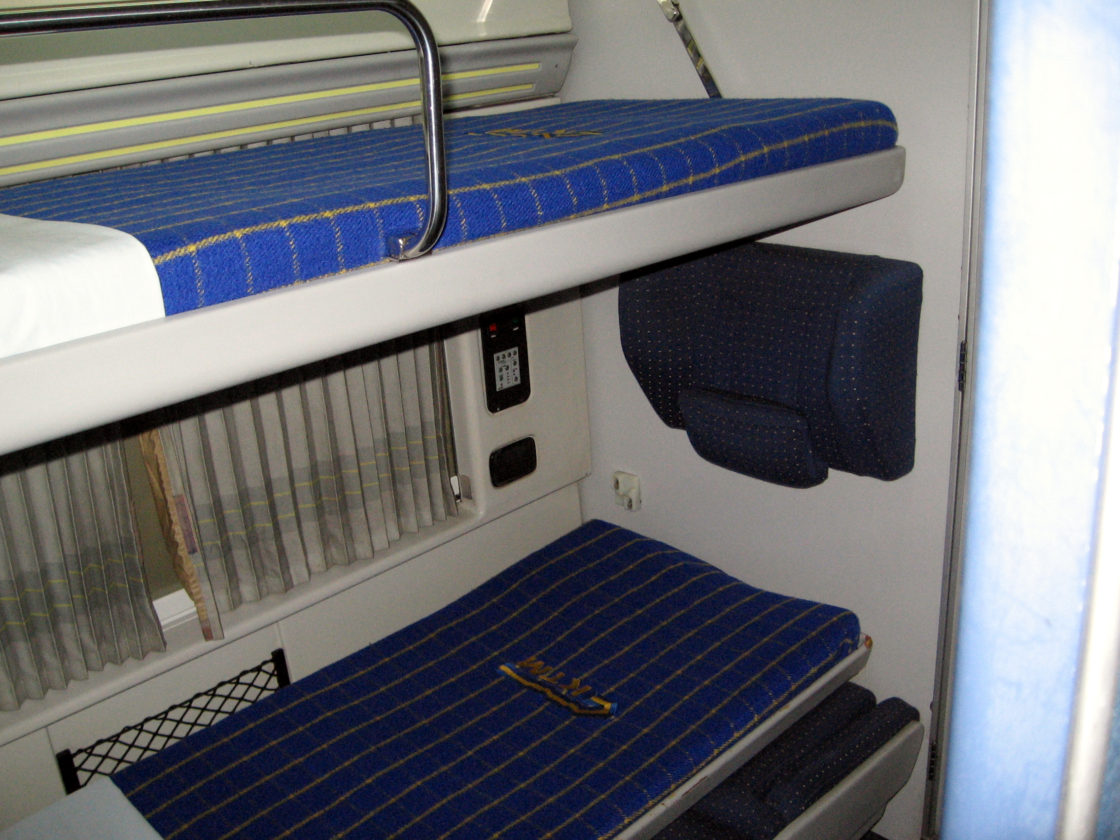 Cabin on the train Singapore - Kuala Lumpur.